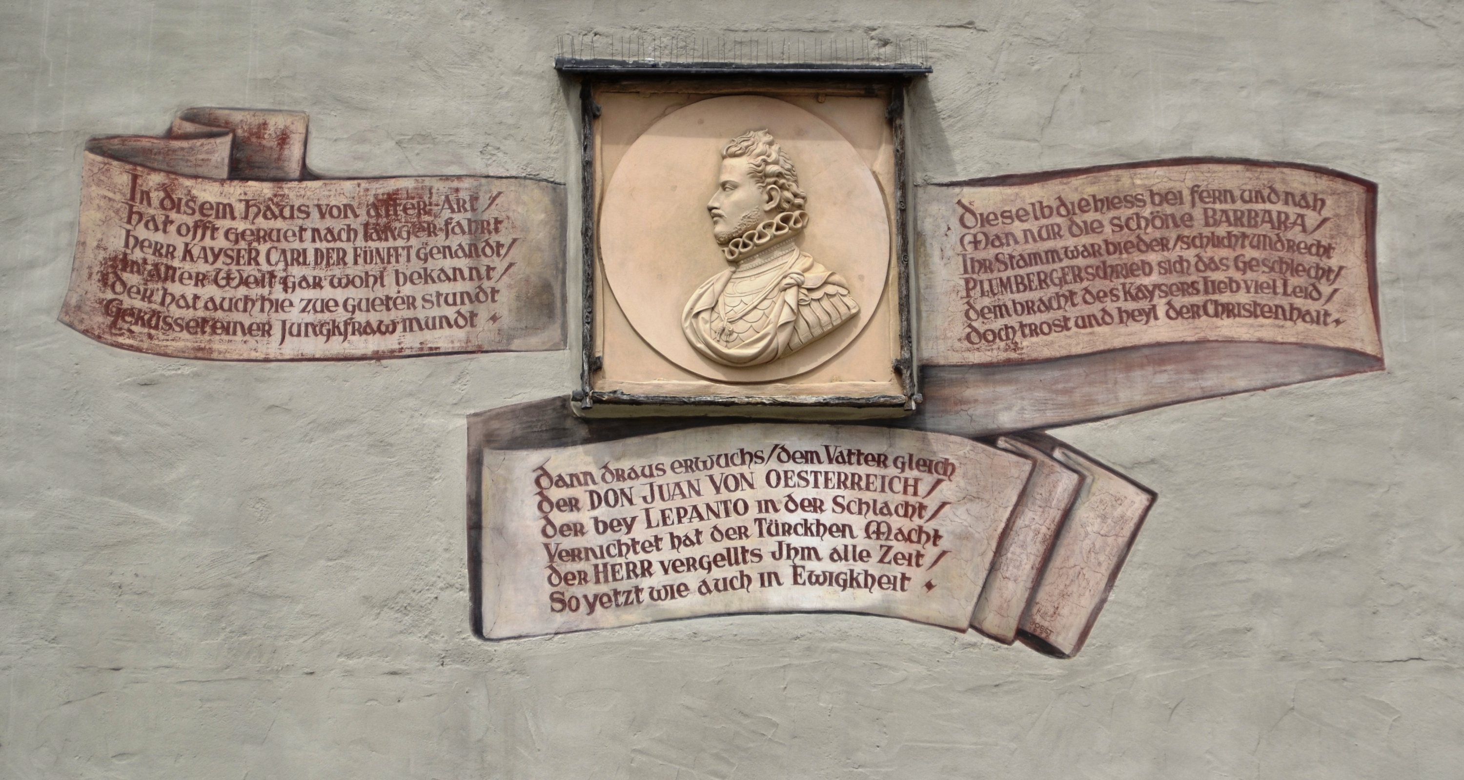 Inscriptions for Don Juan de Austria painted on the facade of the Kaiserherberge at the Haidplatz in Regensburg, Bavaria.